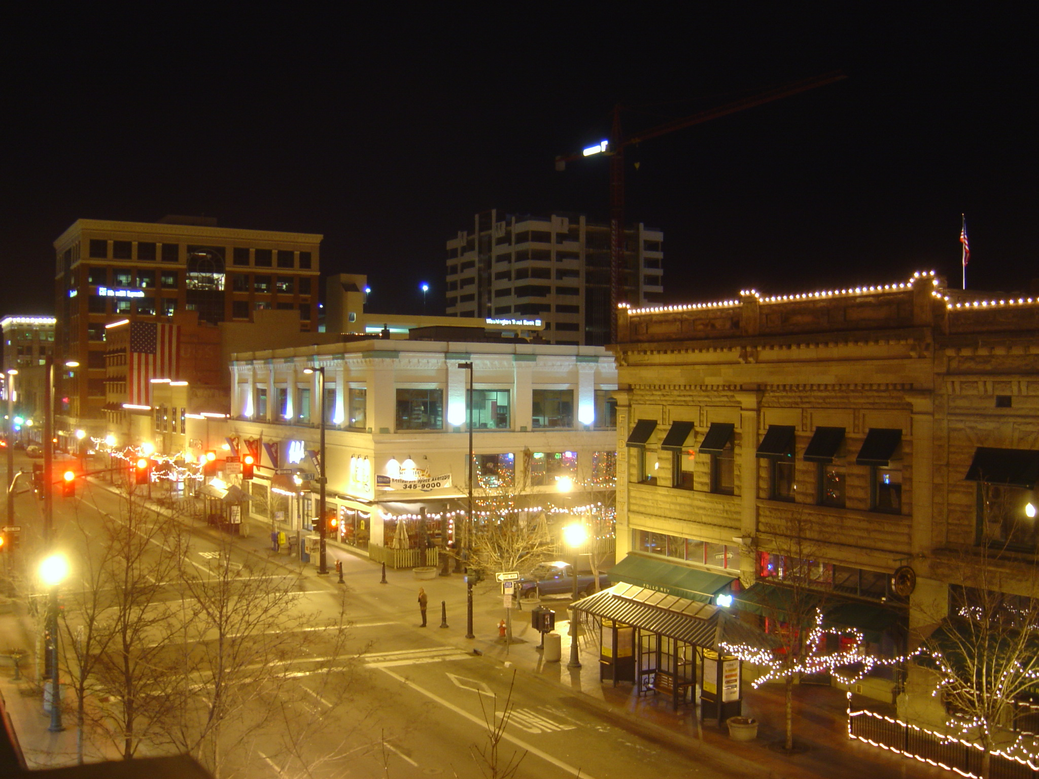 Overlooking the intersection of 8th and Idaho streets photo by Trent Cutler